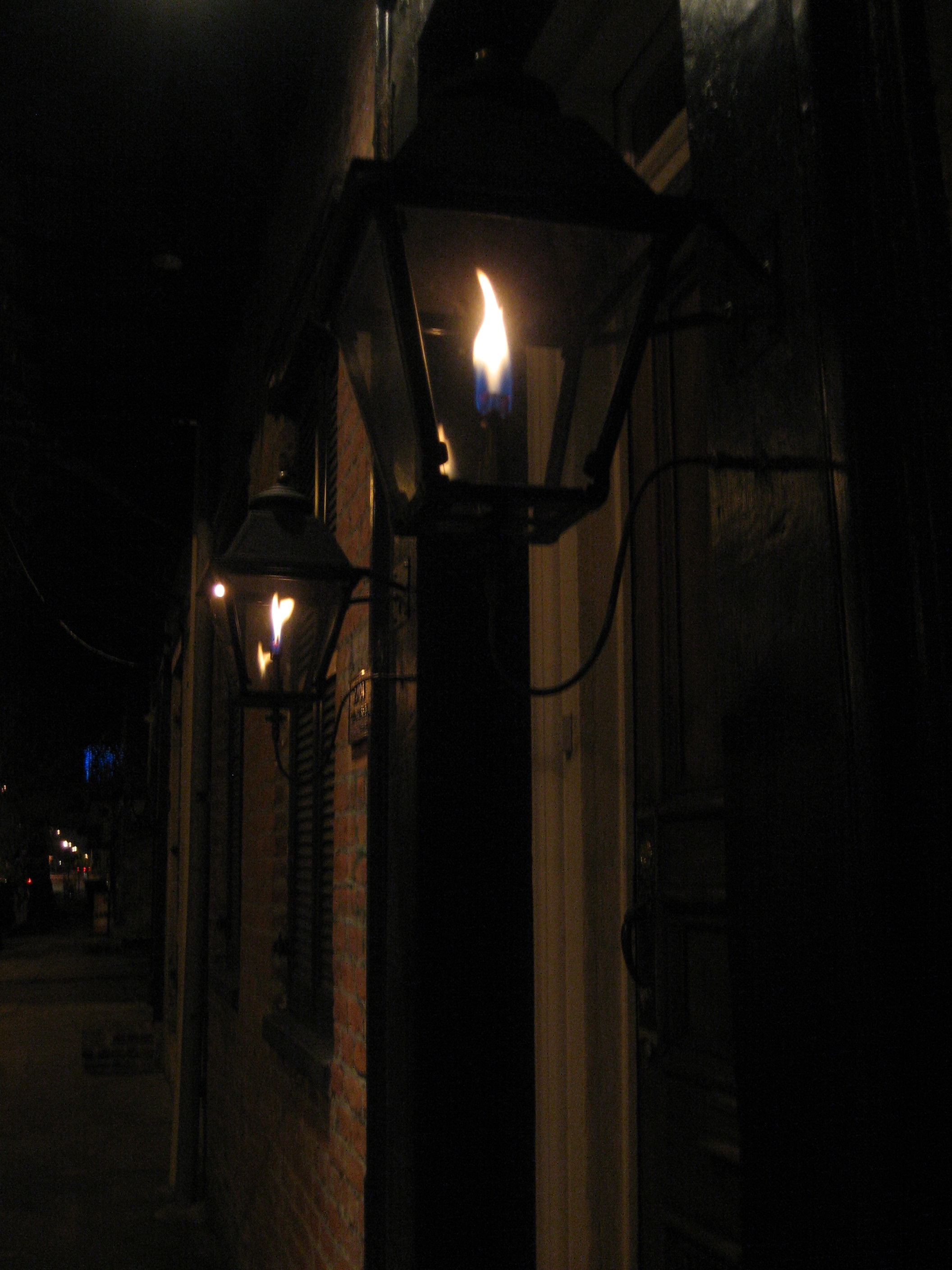 New Orleans: Night view gas lights on 1840s house on Chartres Street, Lower Marigny neighborhood